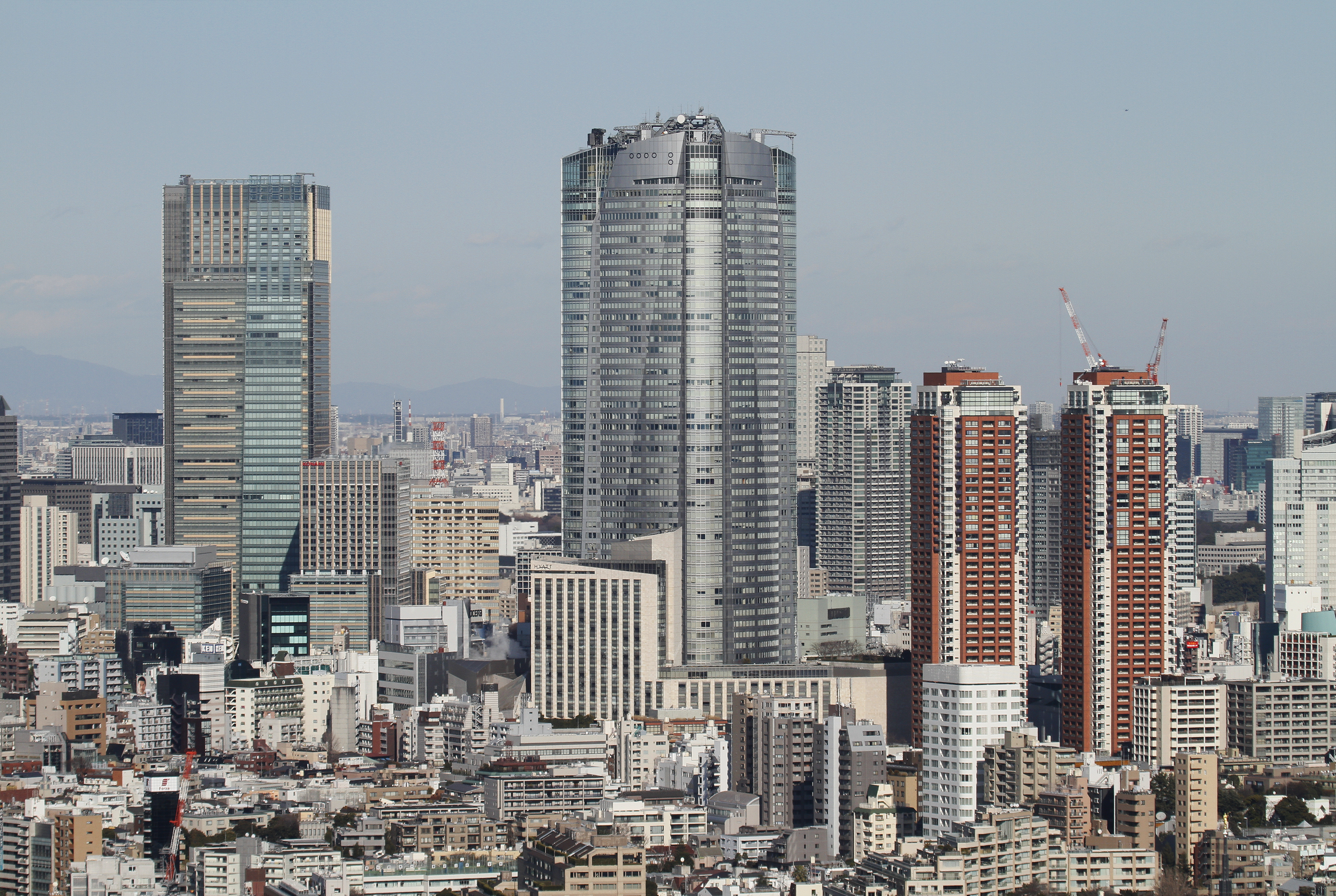 Roppongi Hills and Tokyo Midtown from Yebisu Garden Place.